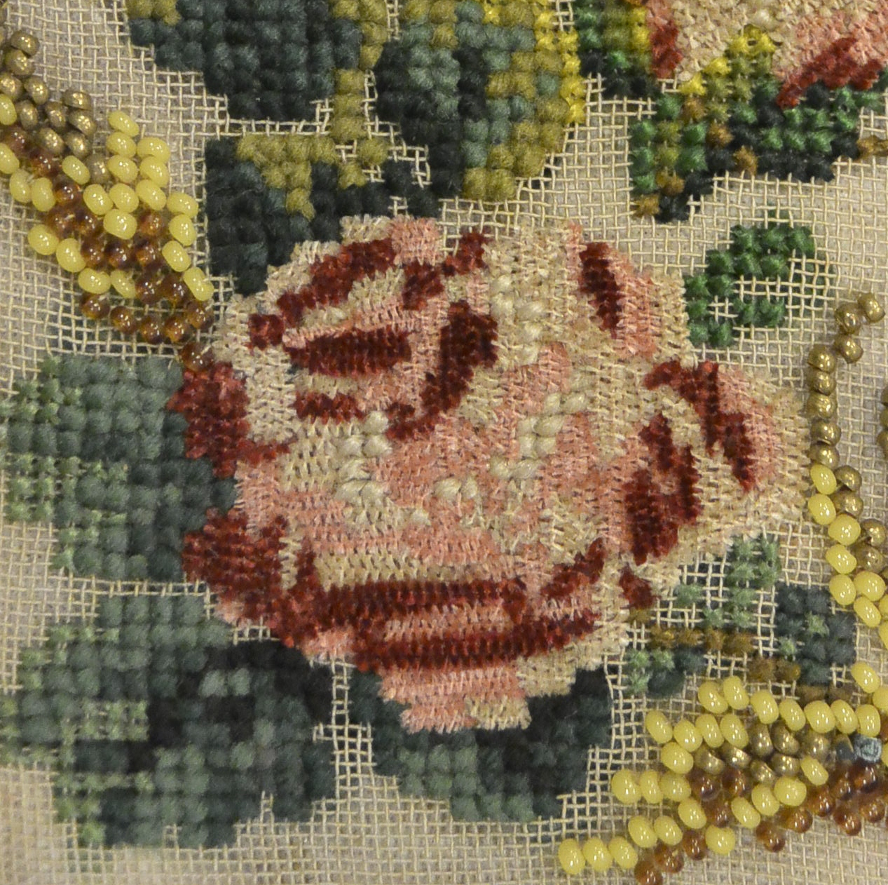 Detail of stole with Berlin woolwork, chenille and beads, 19th century